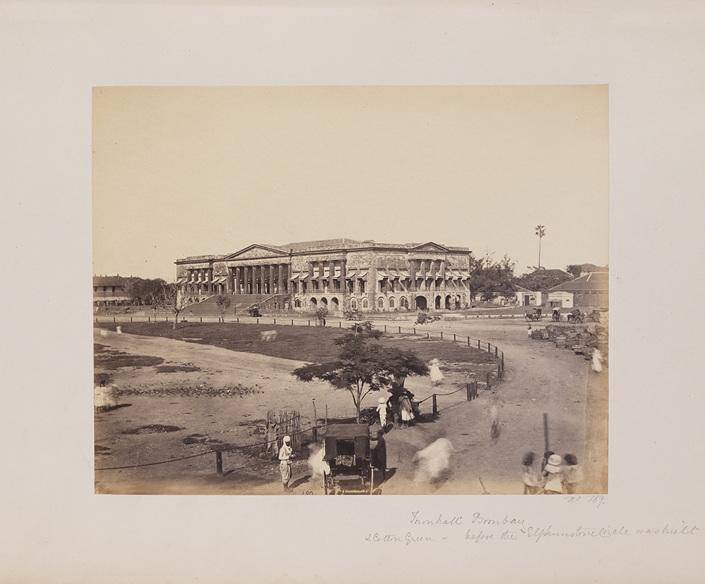 Title: Town Hall Bombay & Cotton Green - before Elphinstone Circle was built. Creator: Johnson, William; Henderson, William Date: ca. 1855-1862 Series: Photographs of Western India. Volume III. Scenery, Public Buildings, &c. Part of: Photographs of Western India Place: Mumbai, Maharashtra, India Physical Description: 1 photographic print: albumen, part of 1 volume (104 albumen prints); 20 x 26 cm on 35 x 42 cm mount File: vault_ag2002_1407x_3_189_townhall_opt.jpg Rights: Please cite Southern Methodist University, Central University Libraries, DeGolyer Library when using this image file. A high-quality version of this file may be obtained for a fee by contacting . For more information, see: View Europe, India, and Asia: Photographs, Manuscripts, and Imprints